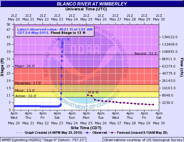 Hydrograph of the Blanco River near Wimberley, Texas during a historic flash flood event on May 24-25, 2015.